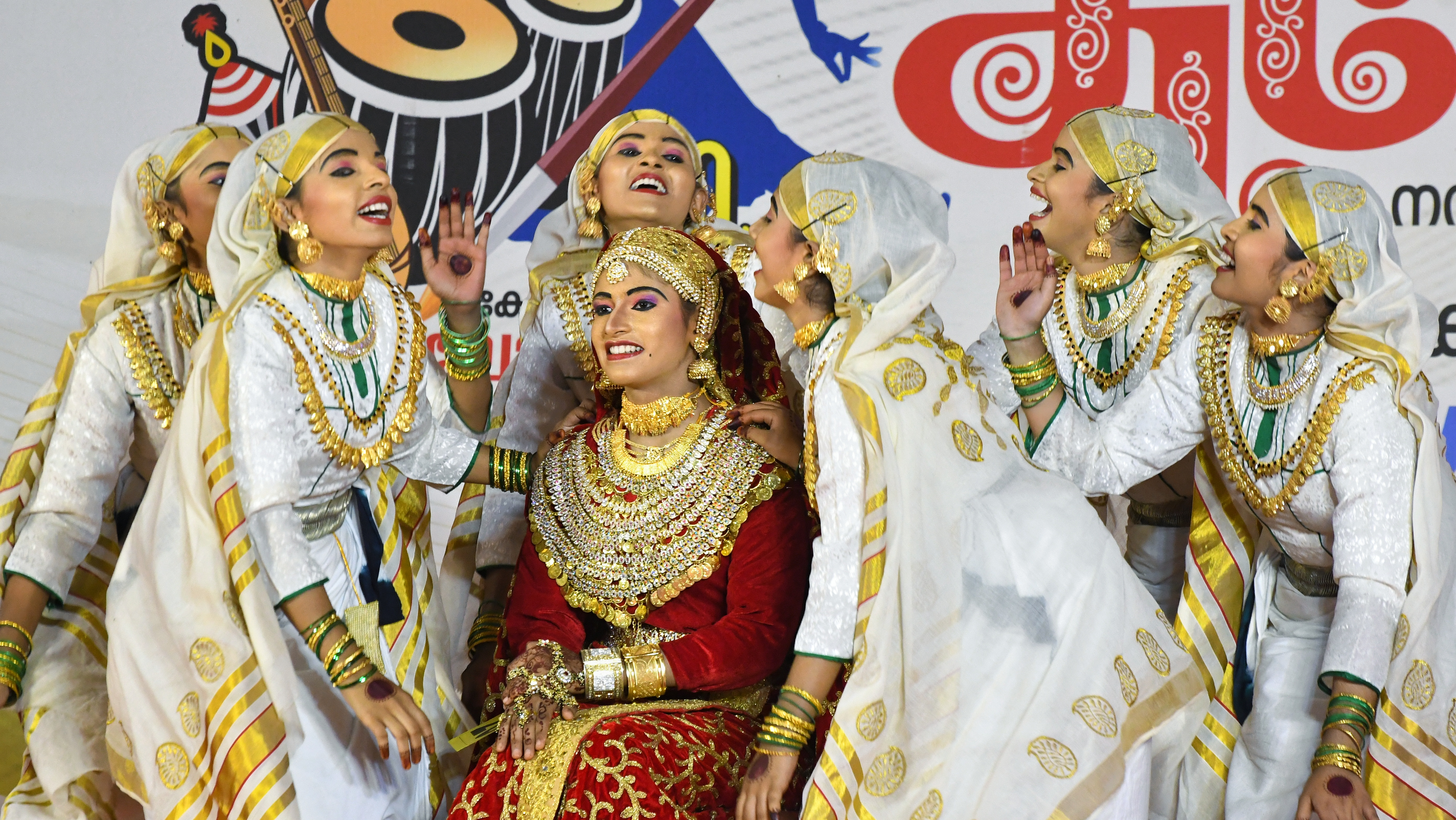 oppana is a traditional art form of muslim culture in Kerala